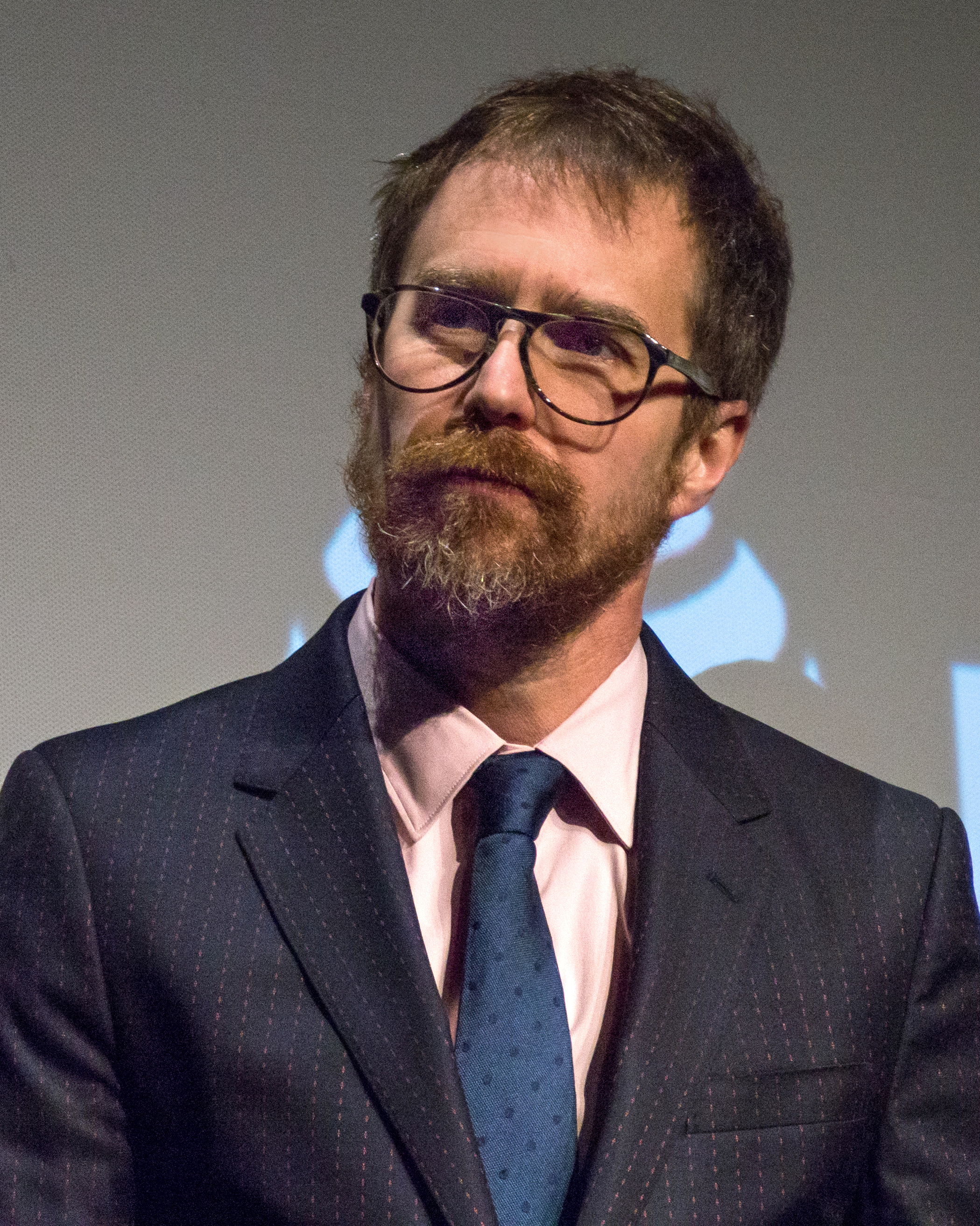 Sam Rockwell during a discussion following the U.S. premiere of Woman Walks Ahead at the 2018 Tribeca Film Festival.